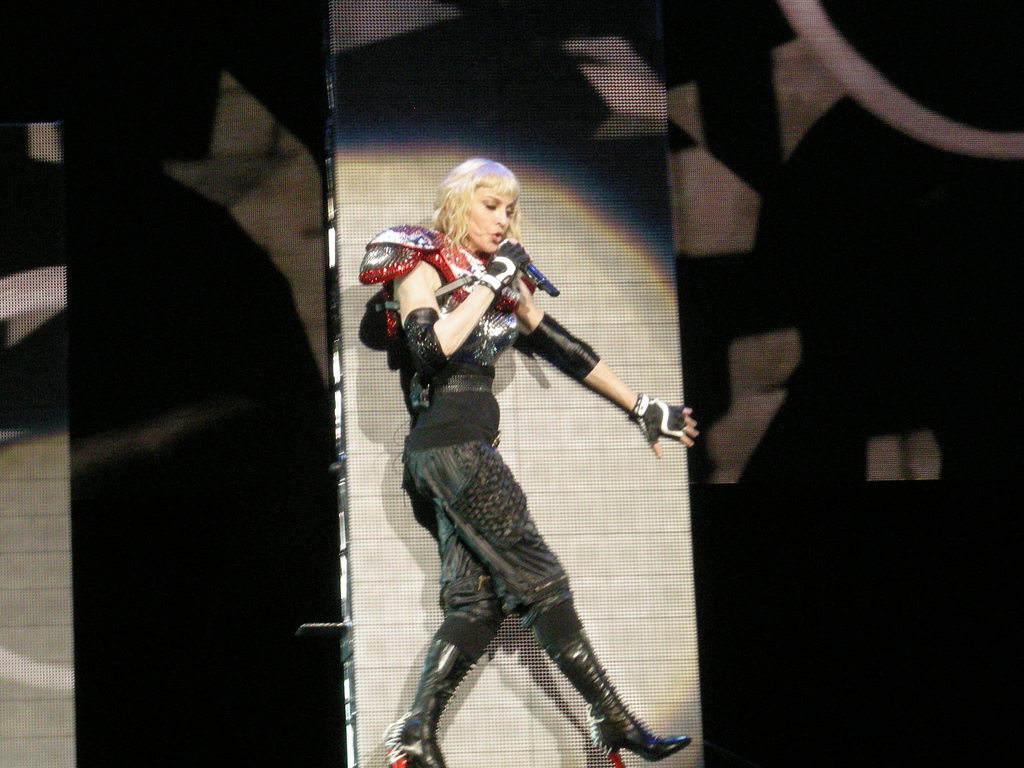 Madonna - Amsterdam ArenA - September 2,2008